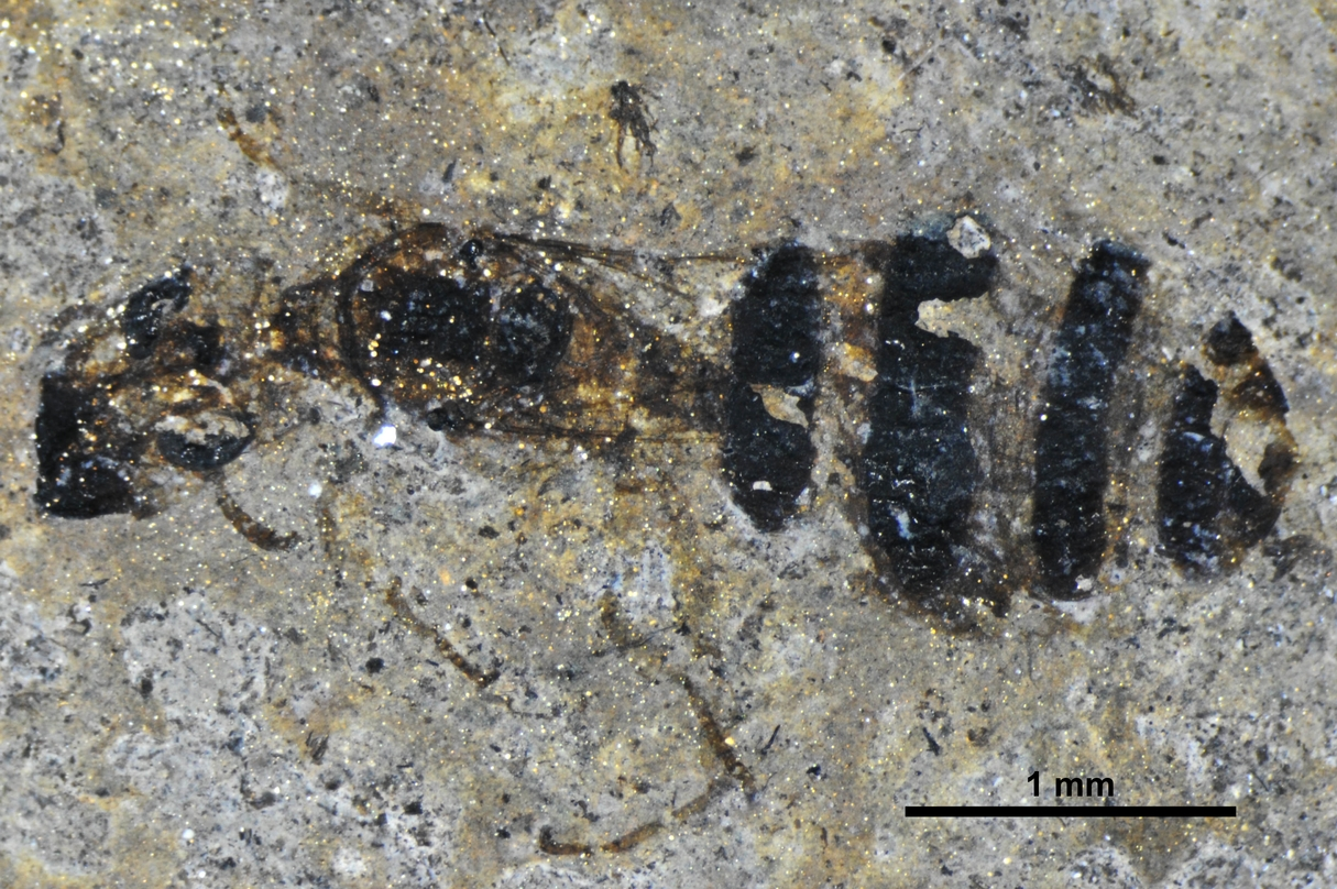 Dorsal view of the Gesomyrmex pulcher holotype, specimen SMFMEI10999